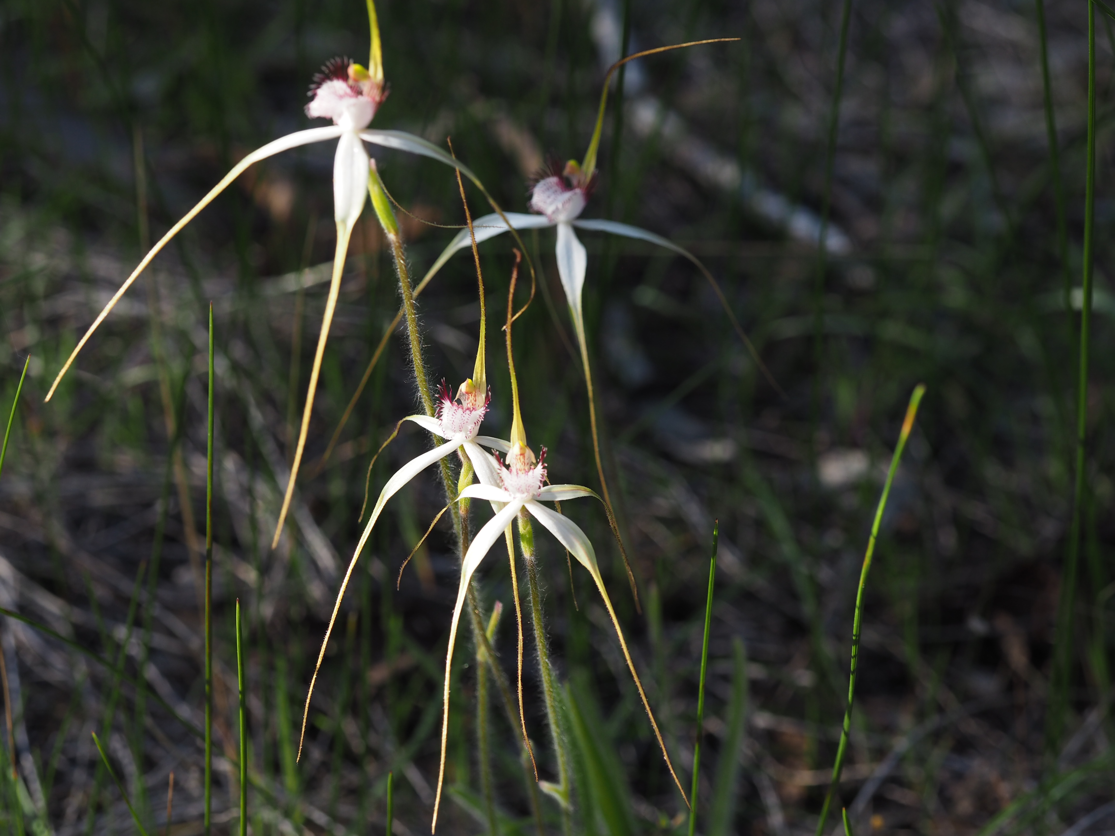 Caladenia longicause subsp. eminens growing near Moora in Western Australia